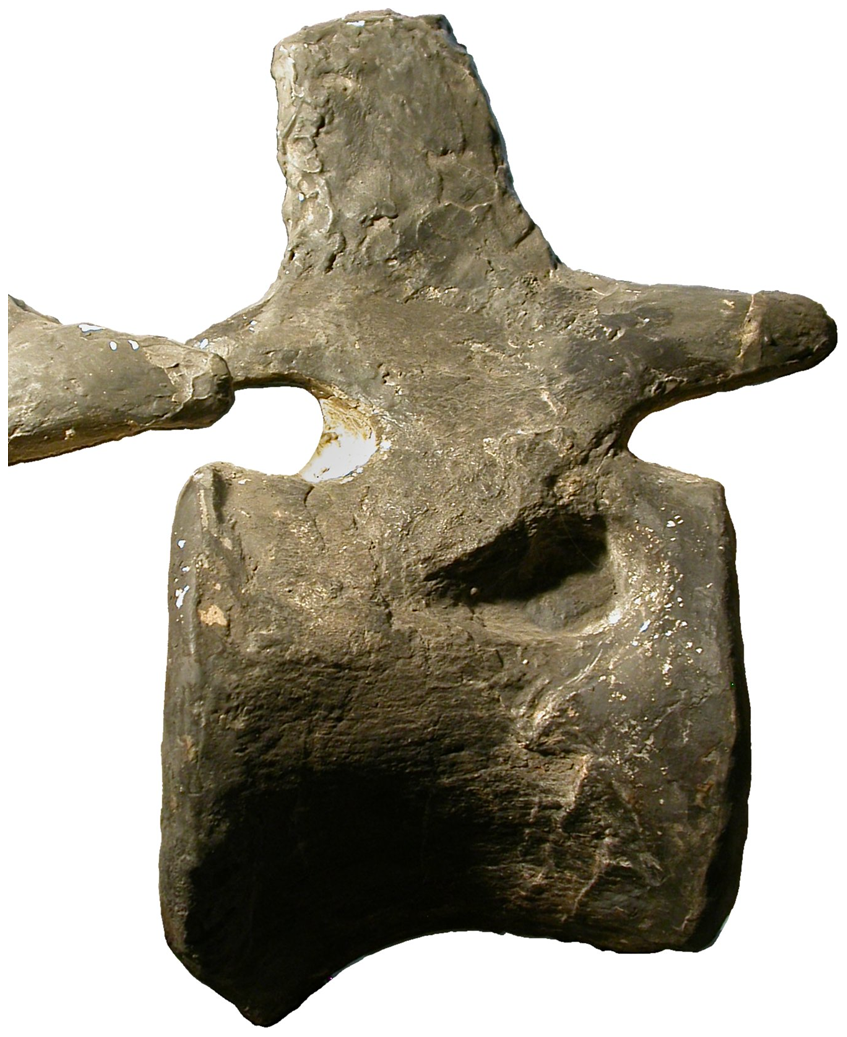 An isolated pneumatic fossa is present on the right side of caudal vertebra 13 in Apatosaurus excelsus holotype YPM 1980. The front of the vertebra and the fossa are reconstructed, but enough of the original fossil is visible to show that the feature is genuine.